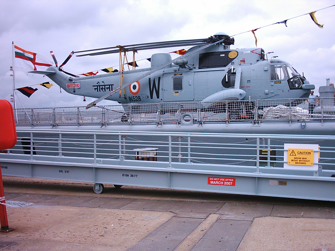 An Indian Navy Westland Sea King Mk.42B helicopter (s/n IN528/W) aboard the guided missile destroyer INS Mumbai (D 62) at the at the International Festival of the Sea, Portsmouth (UK), 3 July 2005.